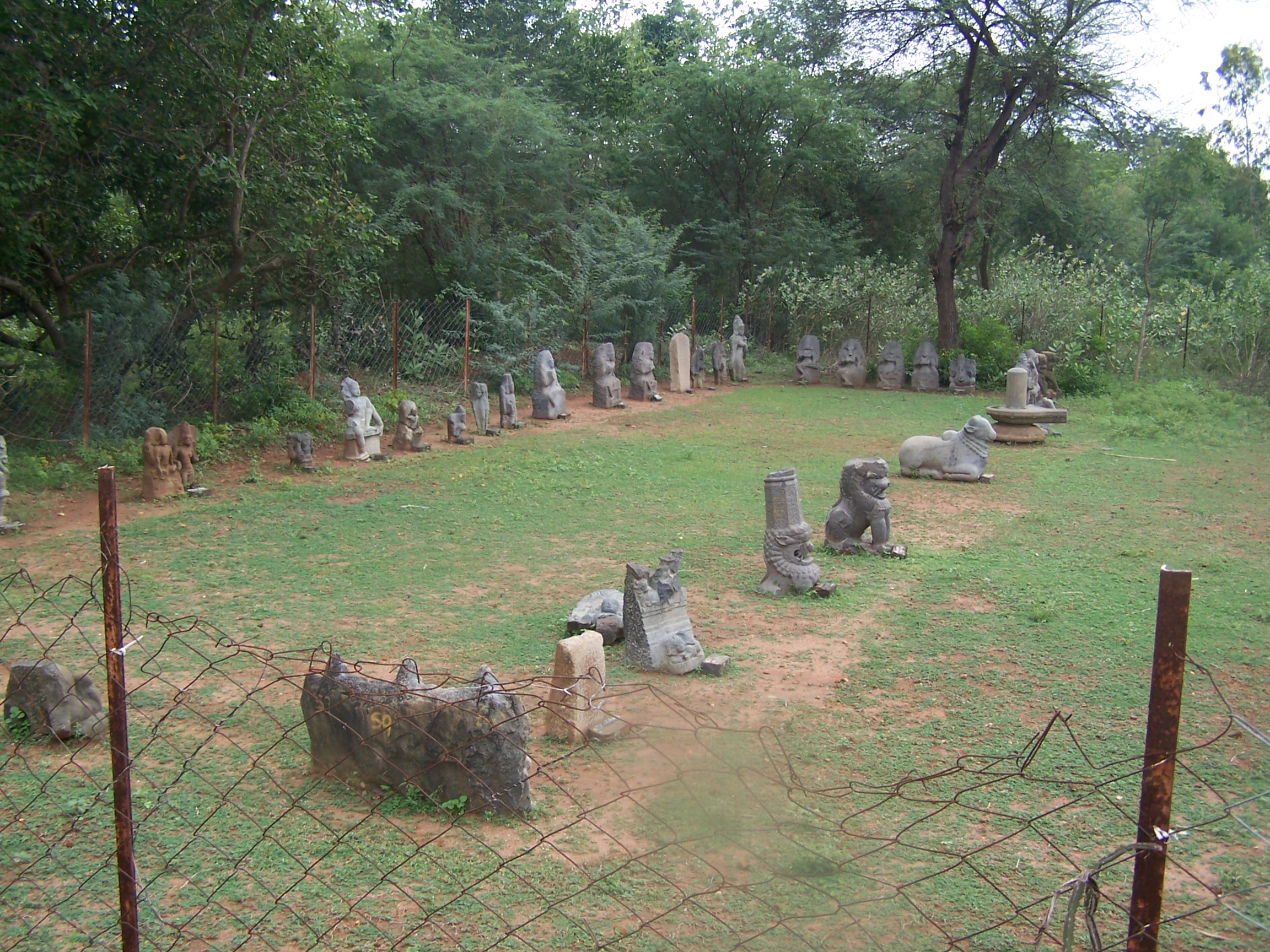 Ancient Items Exacavation in Royal Palace in Gangai Konda Cholapuram.